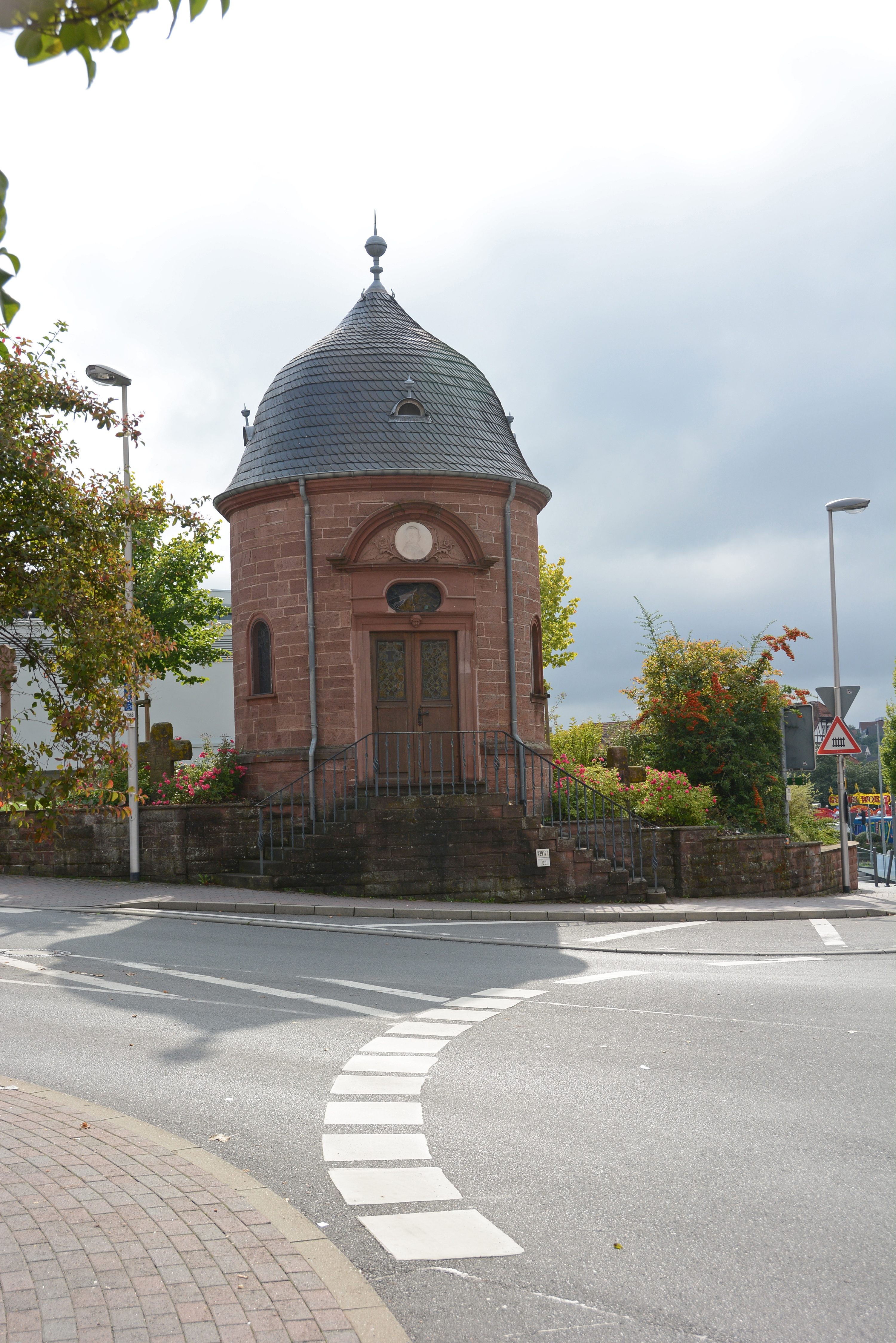 Abbot Bessel Chapel, Buchen (Odenwald), Germany